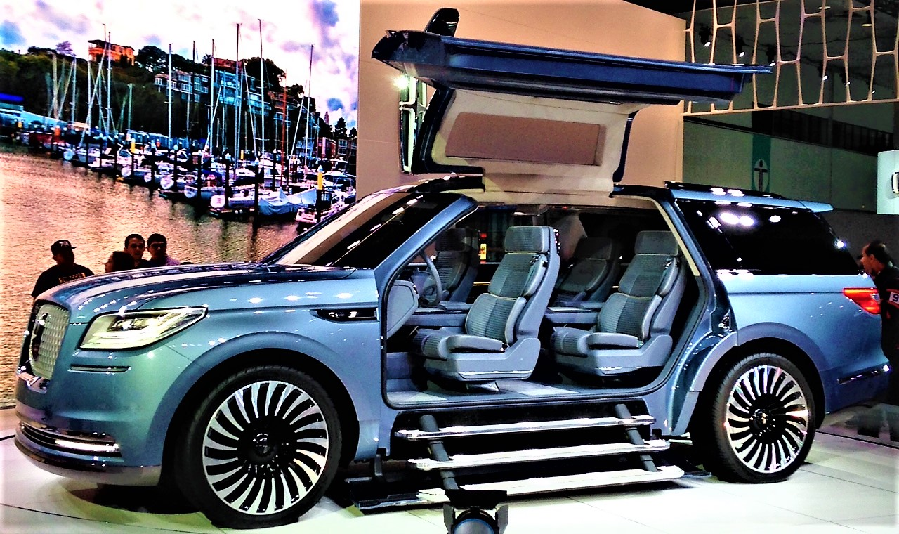 Lincoln Navigator Concept, with gullwing doors and staircase